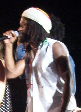 Stephen Bradley performing with No Doubt in Sacramento, California, United States (cropped)